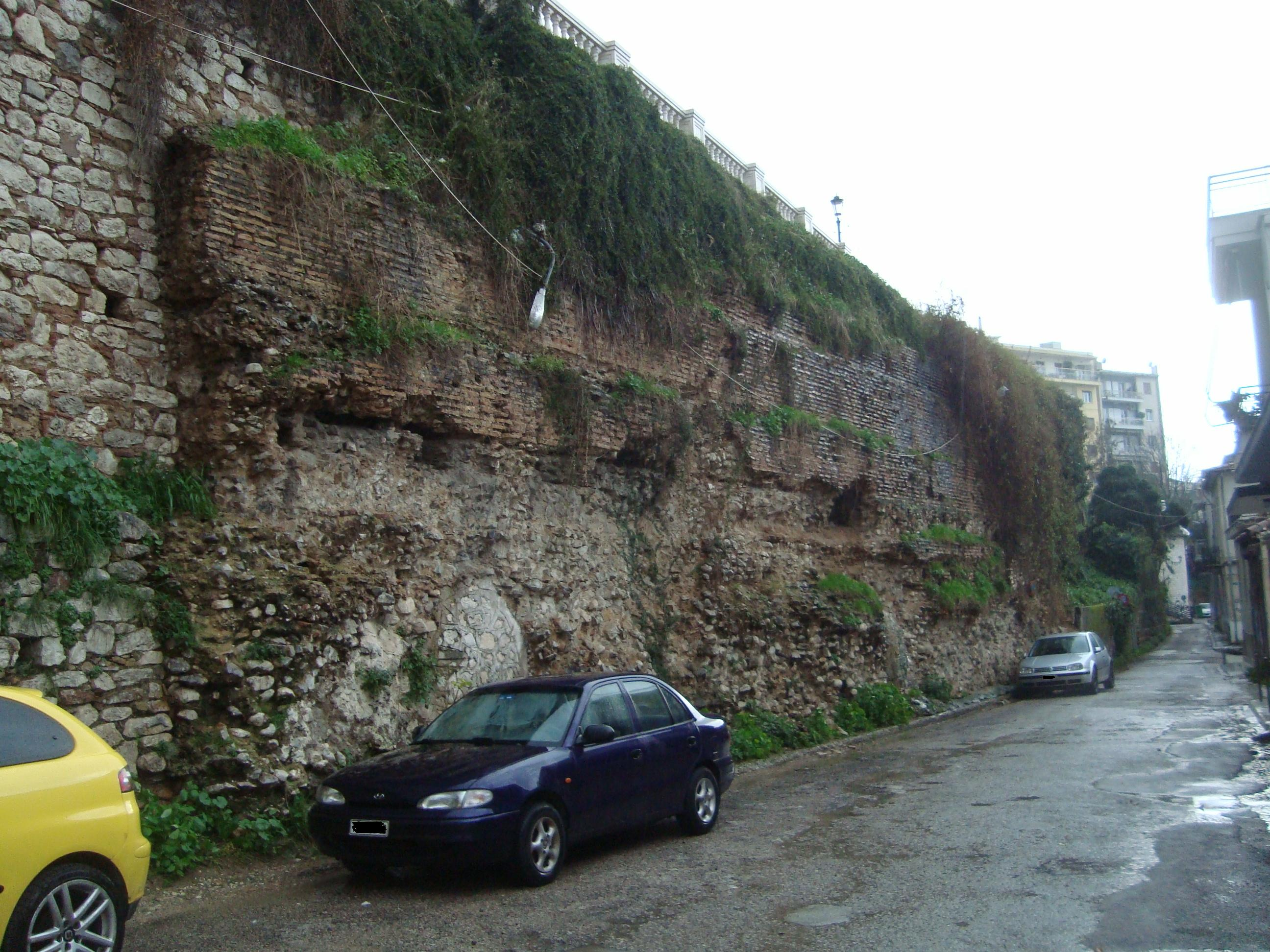 Roman wall, Roman port, Patras city , Achaia Greece